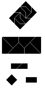 Tiling rectangle with polyaboloes, some exemples (triabolo of order 8, heptabolo of order 6, triabolo of order 2 and tetrabolos of order 1)